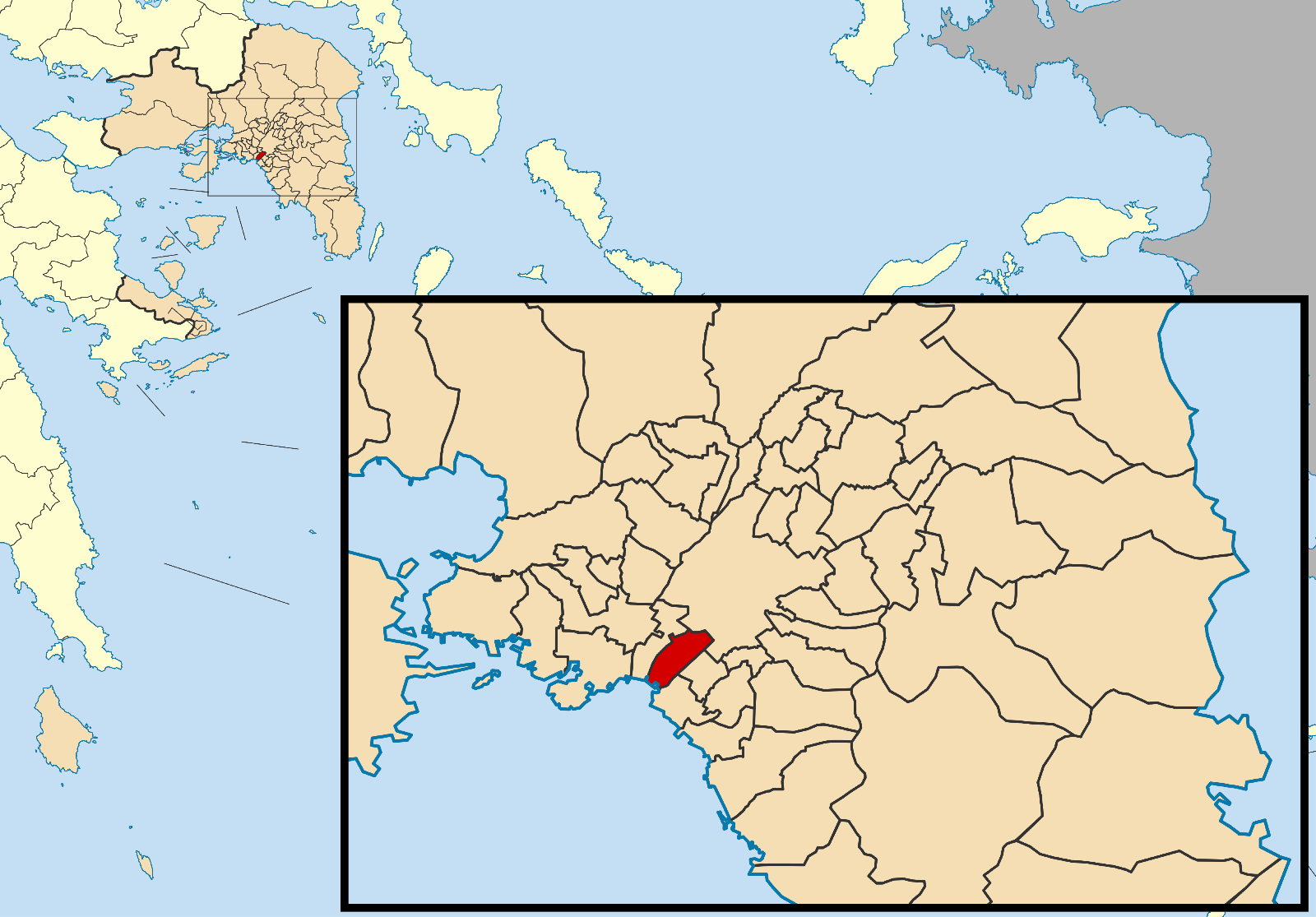 Locator map for Kallithea municipality in Greek region Attica (2011)